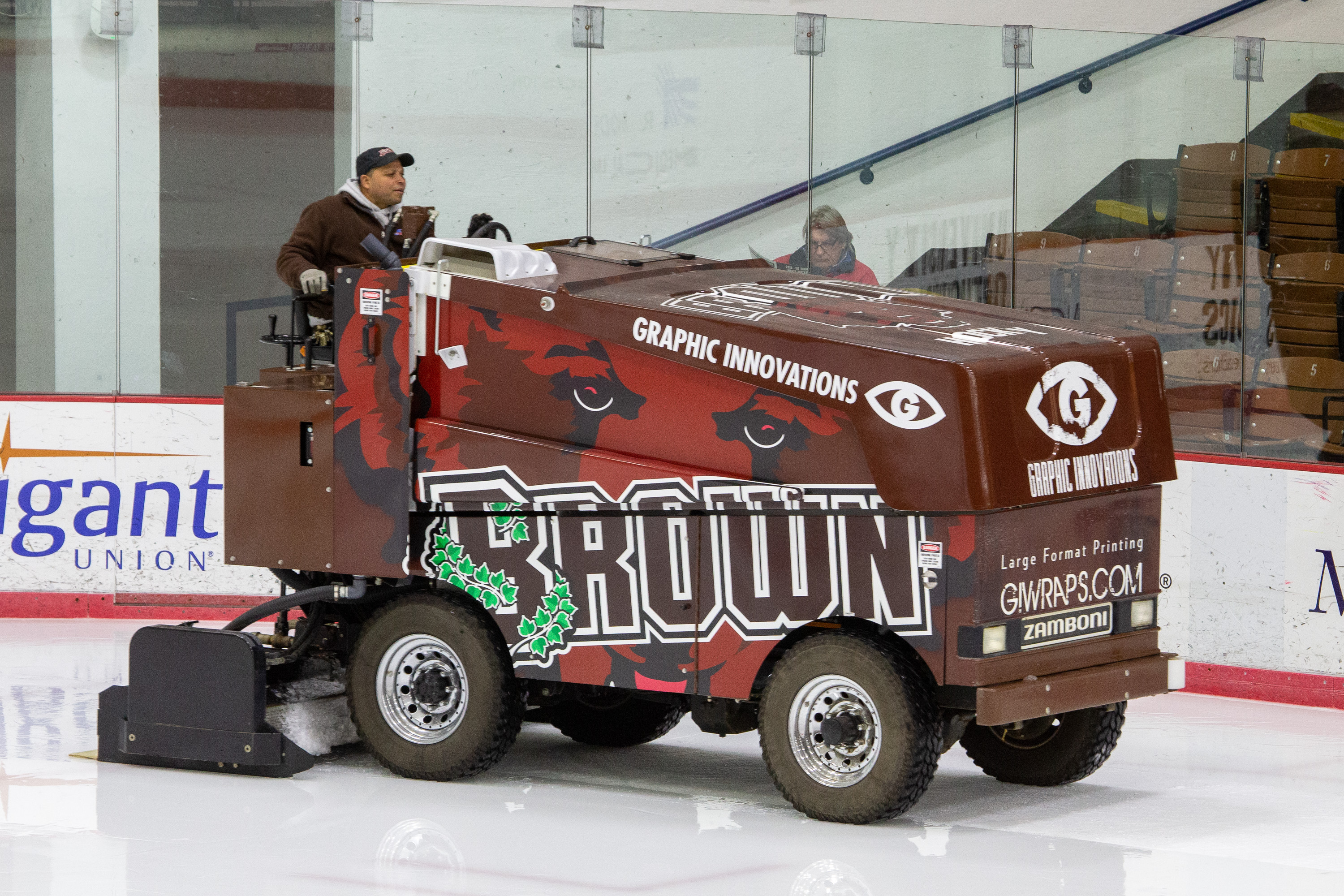 The Zamboni clears the ice, Meehan Auditorium, Feb 22, 2020.